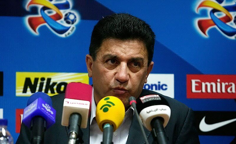 سرمربی استقلال تهران امیر قلعه‌نویی